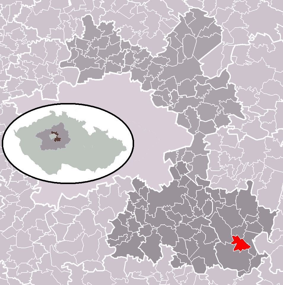 Location of Oplany municipality within Prague-East District and administrative area of Říčany as a Municipality with Extended Competence.